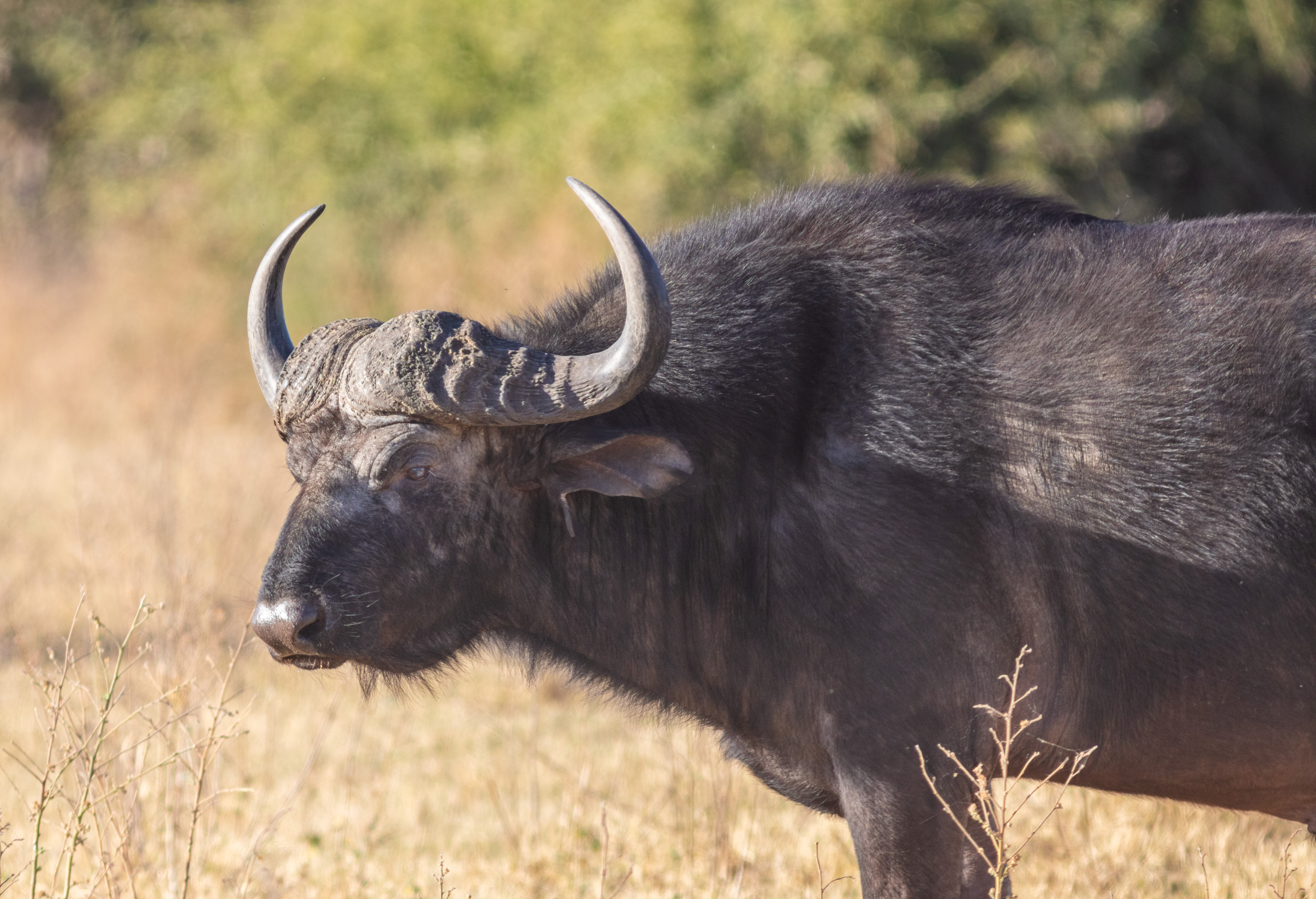 African buffalo (Syncerus caffer caffer), Chobe National Park, Botswana